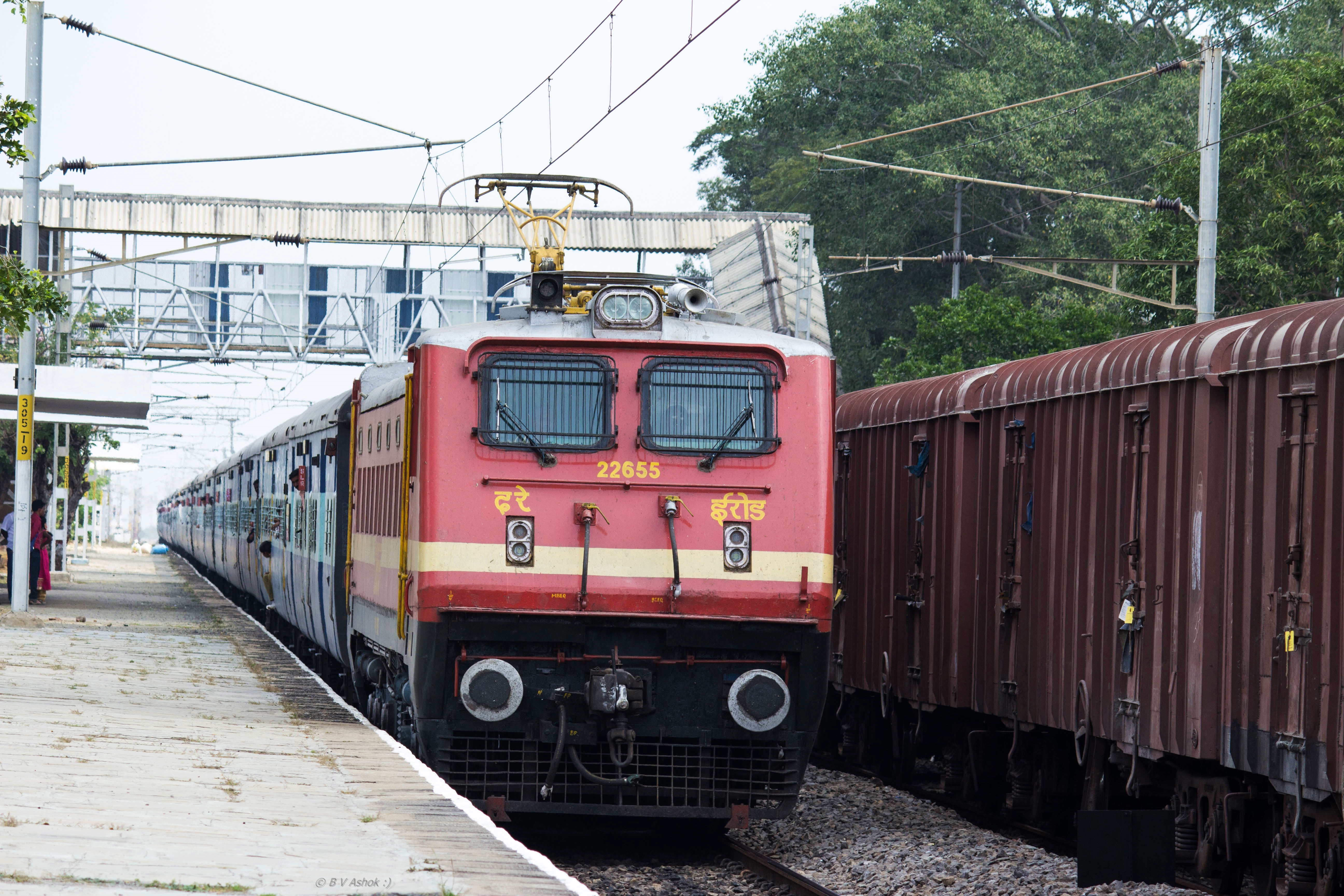 ED WAP-4 22655 cruising through Ammanabrolu with 16126 Jodhpur - Chennai Egmore Express...